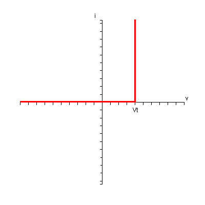 Author: Amr Bekhit